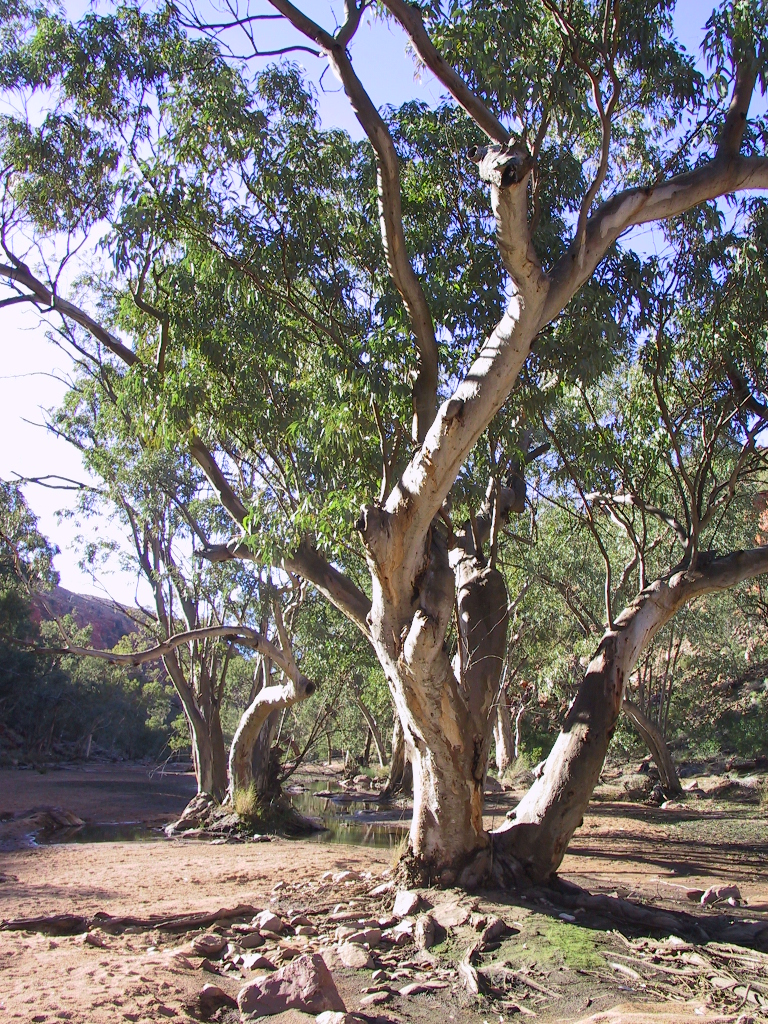 A gum tree on the Finke River along the Larapinta trail, West MacDonnell Ranges, Northern Territory, Australia, mid 2004.